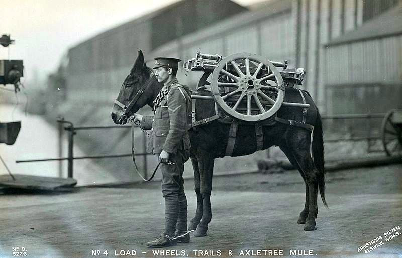 Mule carrying wheels, trails and axeltree of 75 mm Mountain Artillery. Five mules were needed to carry all the equipment. Taken at the Elswick Works, Newcastle upon Tyne. ‘Workshop of the World’ is a phrase often used to describe Britain’s manufacturing dominance during the Nineteenth Century. It’s also a very apt description for the Elswick Works and Scotswood Works of Vickers Armstrong and its predecessor companies. These great factories, situated in Newcastle along the banks of the River Tyne, employed hundreds of thousands of men and women and built a huge variety of products for customers around the globe. The Elswick Works was established by William George Armstrong (later Lord Armstrong) in 1847 to manufacture hydraulic cranes. From these relatively humble beginnings the company diversified into many fields including shipbuilding, armaments and locomotives. By 1953 the Elswick Works covered 70 acres and extended over a mile along the River Tyne. This set of images, mostly taken from our Vickers Armstrong collection, includes fascinating views of the factories at Elswick and Scotswood, the products they produced and the people that worked there. By preserving these archives we can ensure that their legacy lives on. (Copyright) We're happy for you to share this digital image within the spirit of The Commons. Please cite 'Tyne & Wear Archives & Museums' when reusing. Certain restrictions on high quality reproductions and commercial use of the original physical version apply though; if you're unsure please .